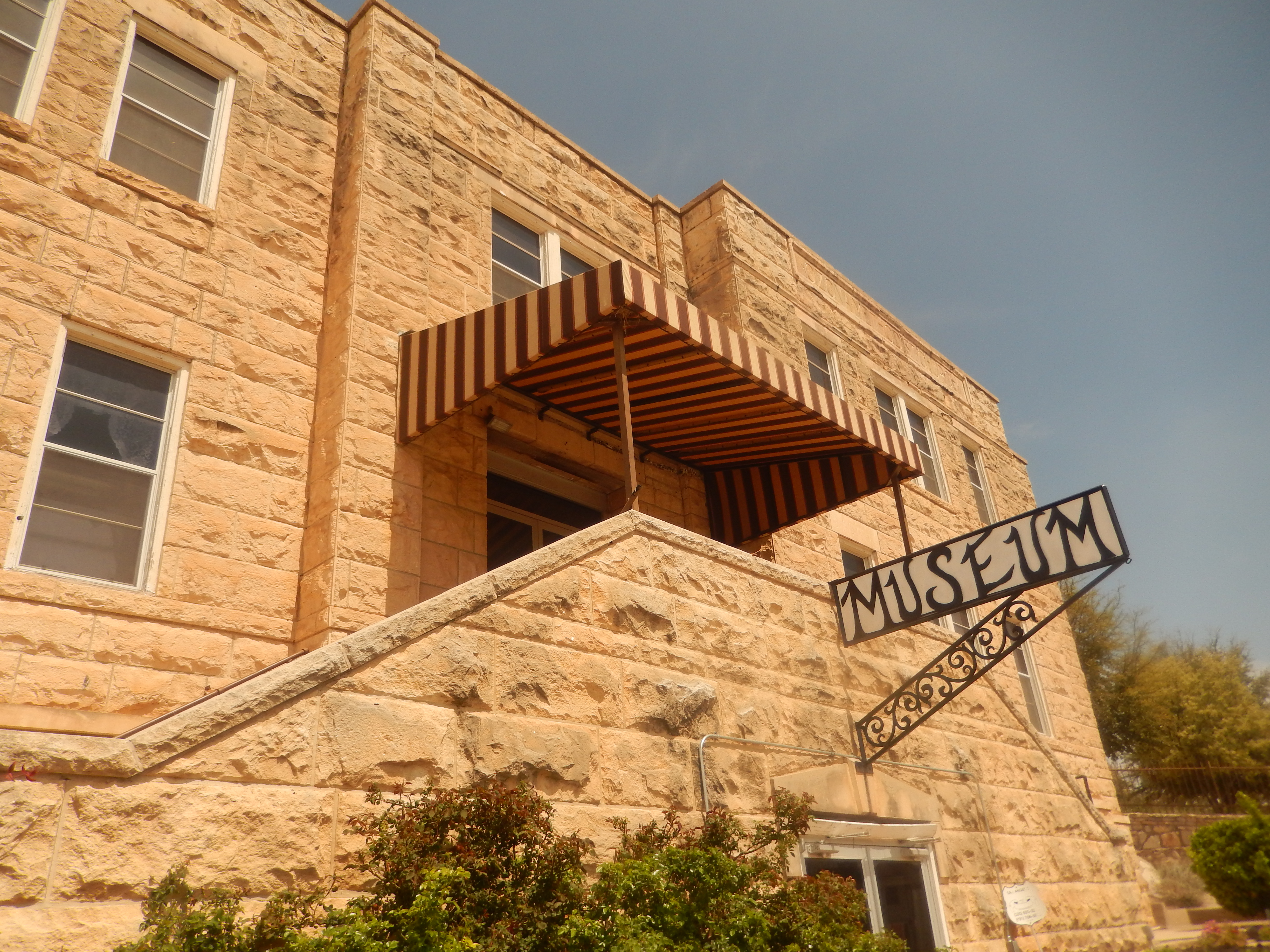 I took photo with Nikon camera of Crockett County Museum in Ozona, TX.